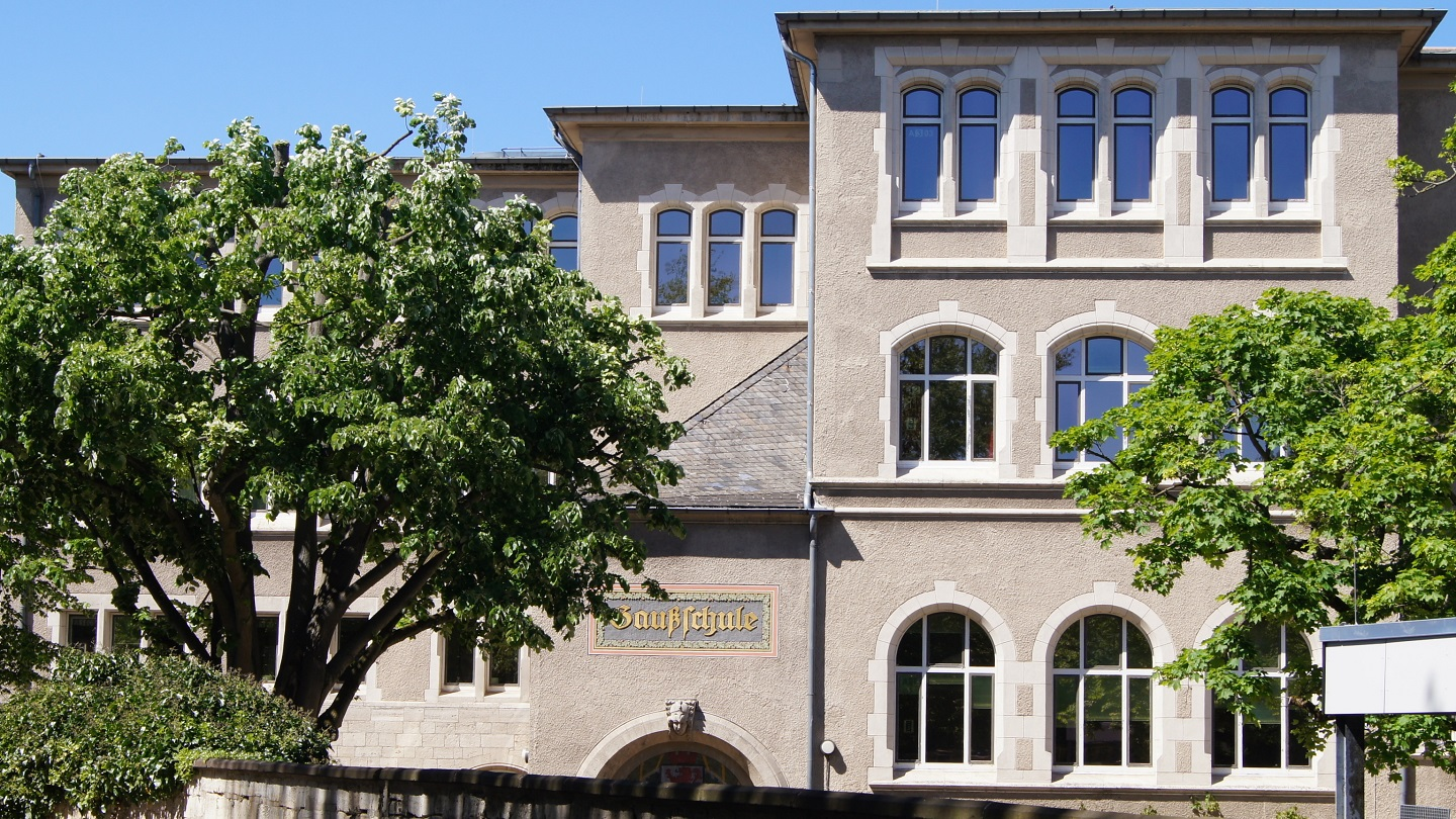 Gaußschule am Löwenwall, Brunswick, seen from the Löwenwall